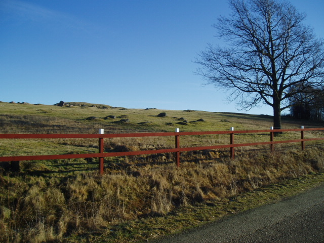 Broåsen's grave field